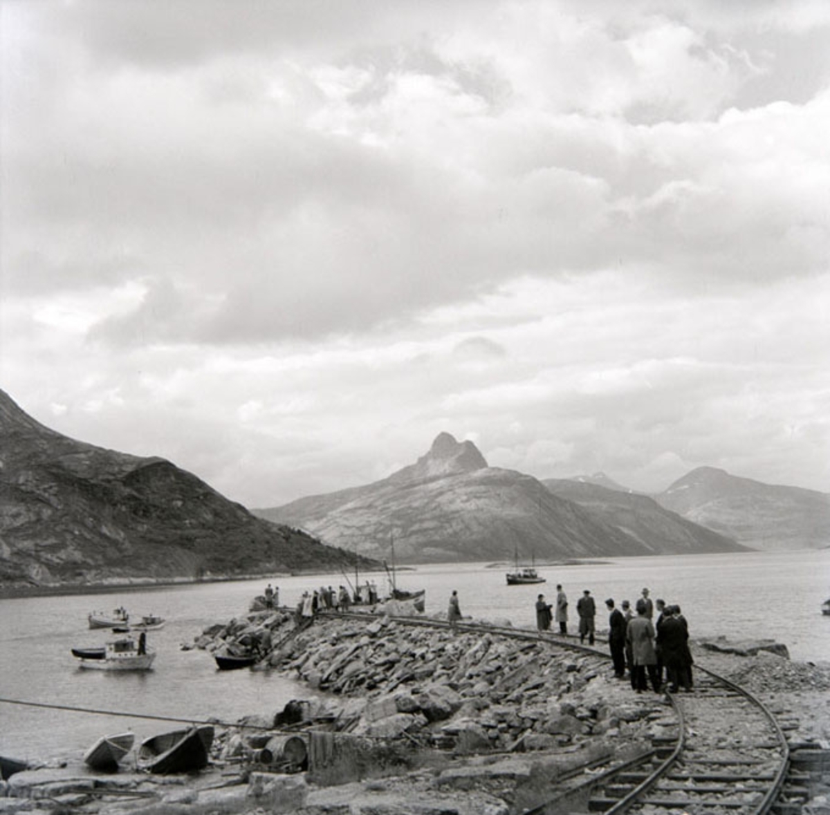 People go ashore at the new pier at Rørstad, Sørfold, Nordland, Norway.